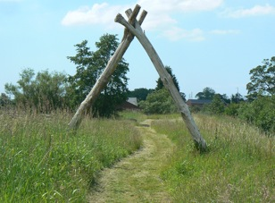 Air sculpture by Thompson Dagnall at the Ribble Link in Lancashire, England